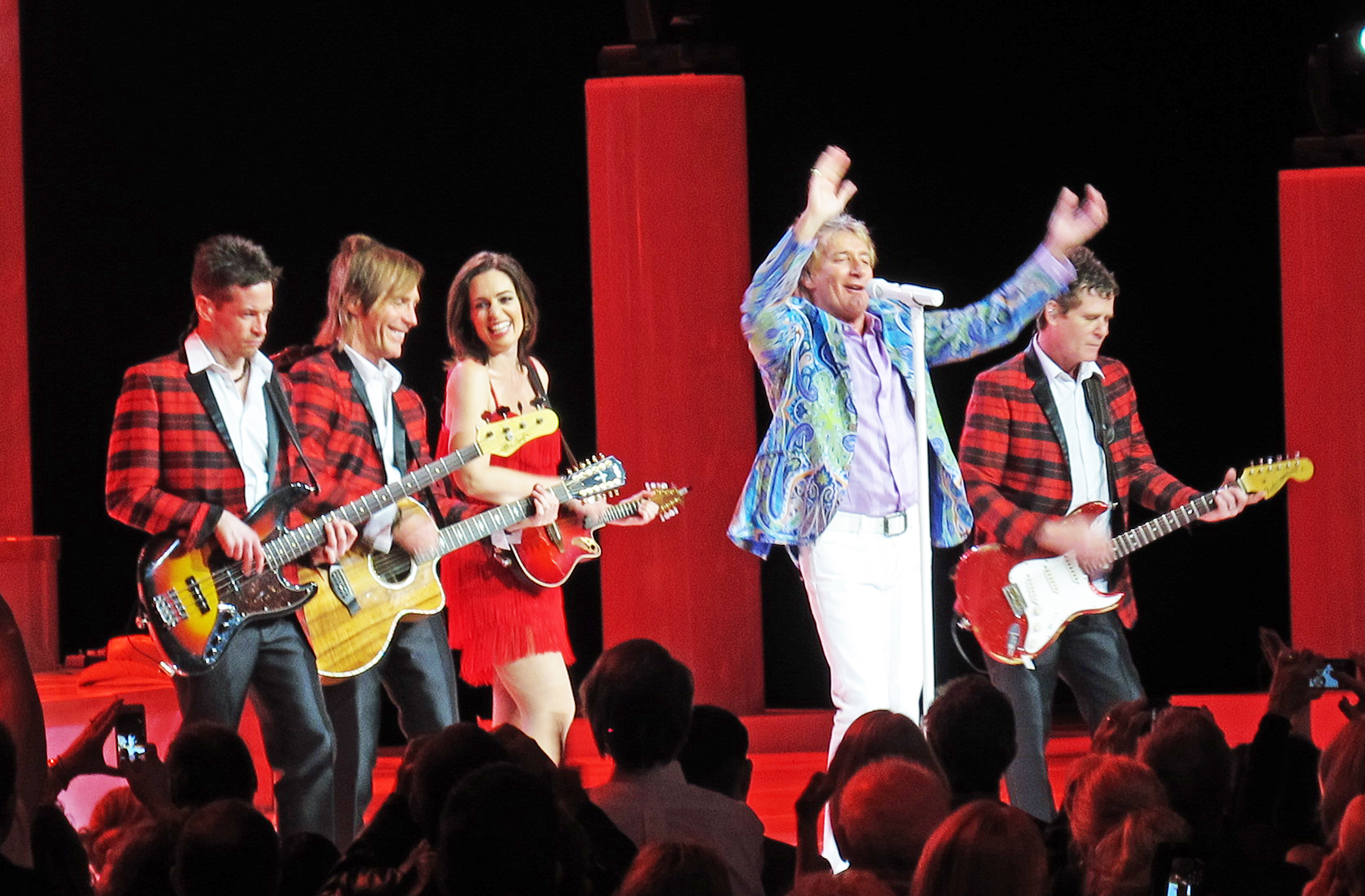 Rod Stewart performing at Caesars Palace, Las Vegas, February 6, 2013. With J'anna Jacoby (mandoline)